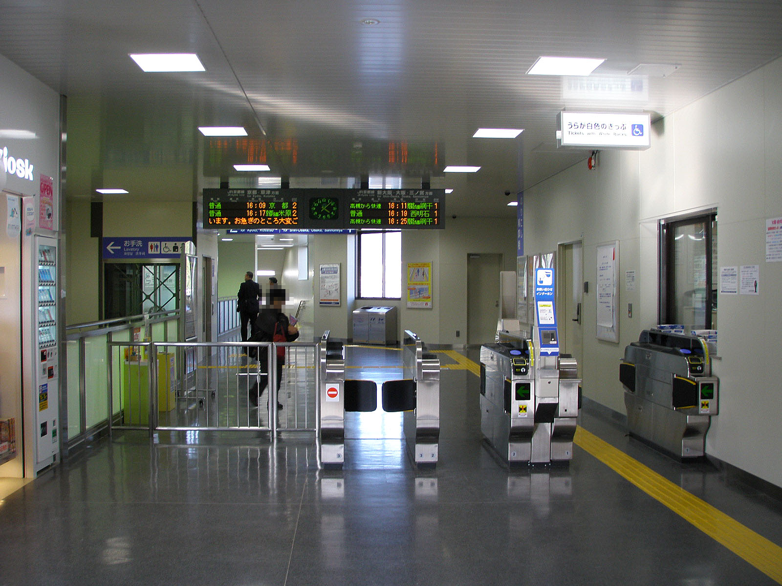 West Japan Railway Tōkaidō Main Line（JR Kyōto Line） Shimamoto Station Building Ticket Gate